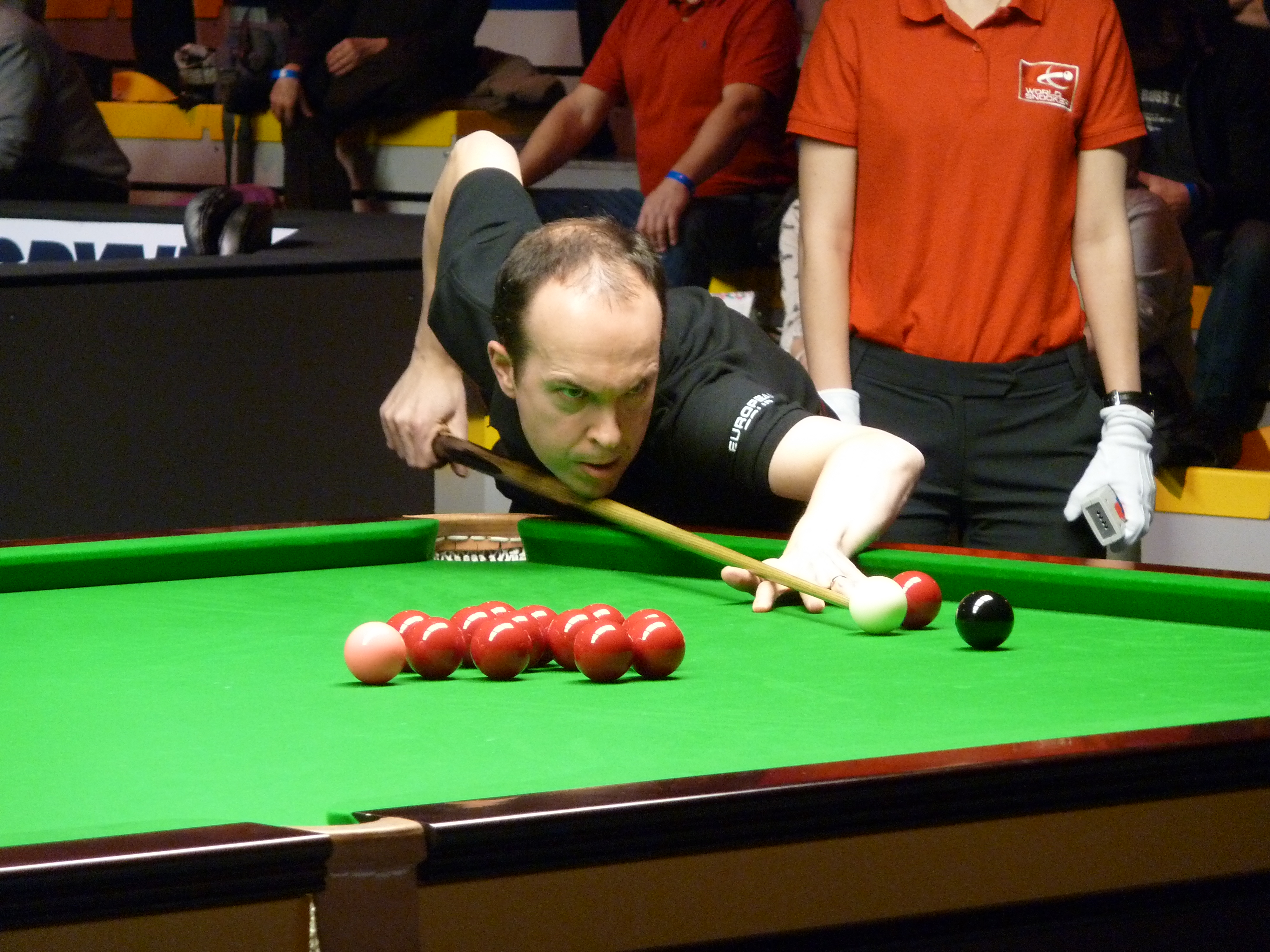 Fergal O’Brien in semifinal of Gdynia Open 2014